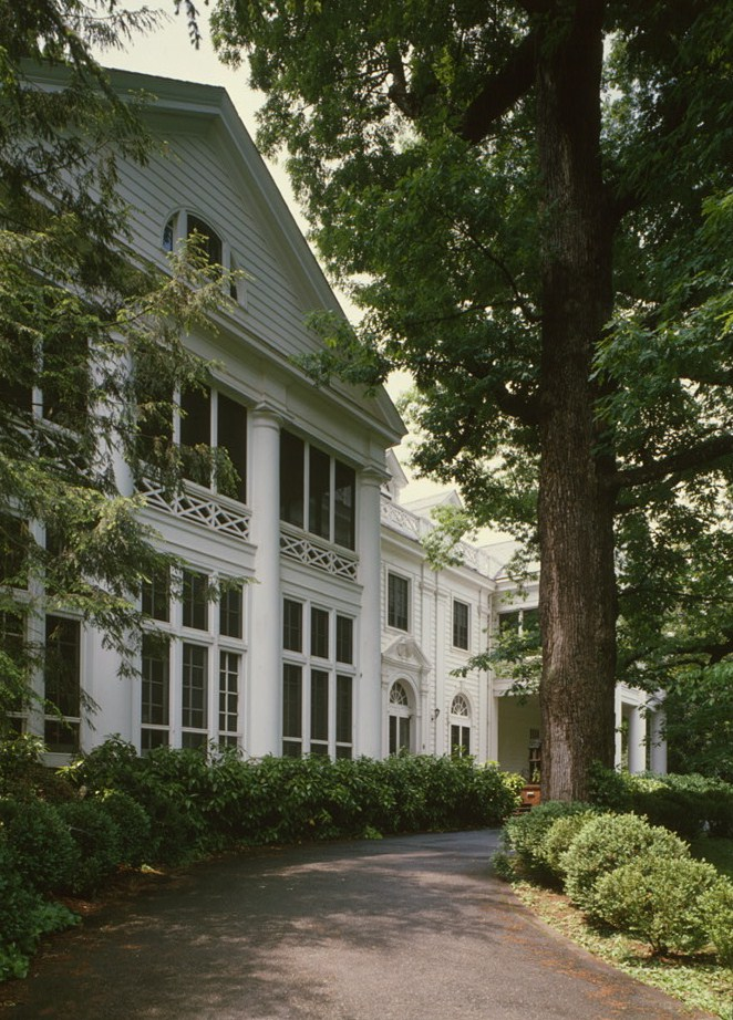 James Buchanan Duke House, 400 Hermitage, Charlotte (Mecklenburg, North Carolina) cropped This file comes from the Historic American Buildings Survey (HABS), Historic American Engineering Record (HAER) or Historic American Landscapes Survey (HALS). These are programs of the National Park Service established for the purpose of documenting historic places. Records consist of measured drawings, archival photographs, and written reports. When reusing please credit: Library of Congress, Prints & Photographs Division, NC-321-35 This tag does not indicate the copyright status of the attached work. A normal copyright tag is still required. See Commons:Licensing. This work is in the public domain in the United States because it is a work prepared by an officer or employee of the United States Government as part of that person’s official duties under the terms of Title 17, Chapter 1, Section 105 of the US Code. Note: This only applies to original works of the Federal Government and not to the work of any individual U.S. state, territory, commonwealth, county, municipality, or any other subdivision. This template also does not apply to postage stamp designs published by the United States Postal Service since 1978. (See § 313.6(C)(1) of Compendium of U.S. Copyright Office Practices). It also does not apply to certain US coins; see The US Mint Terms of Use. This file has been identified as being free of known restrictions under copyright law, including all related and neighboring rights. Object location35° 12′ 05″ N, 80° 49′ 39″ W